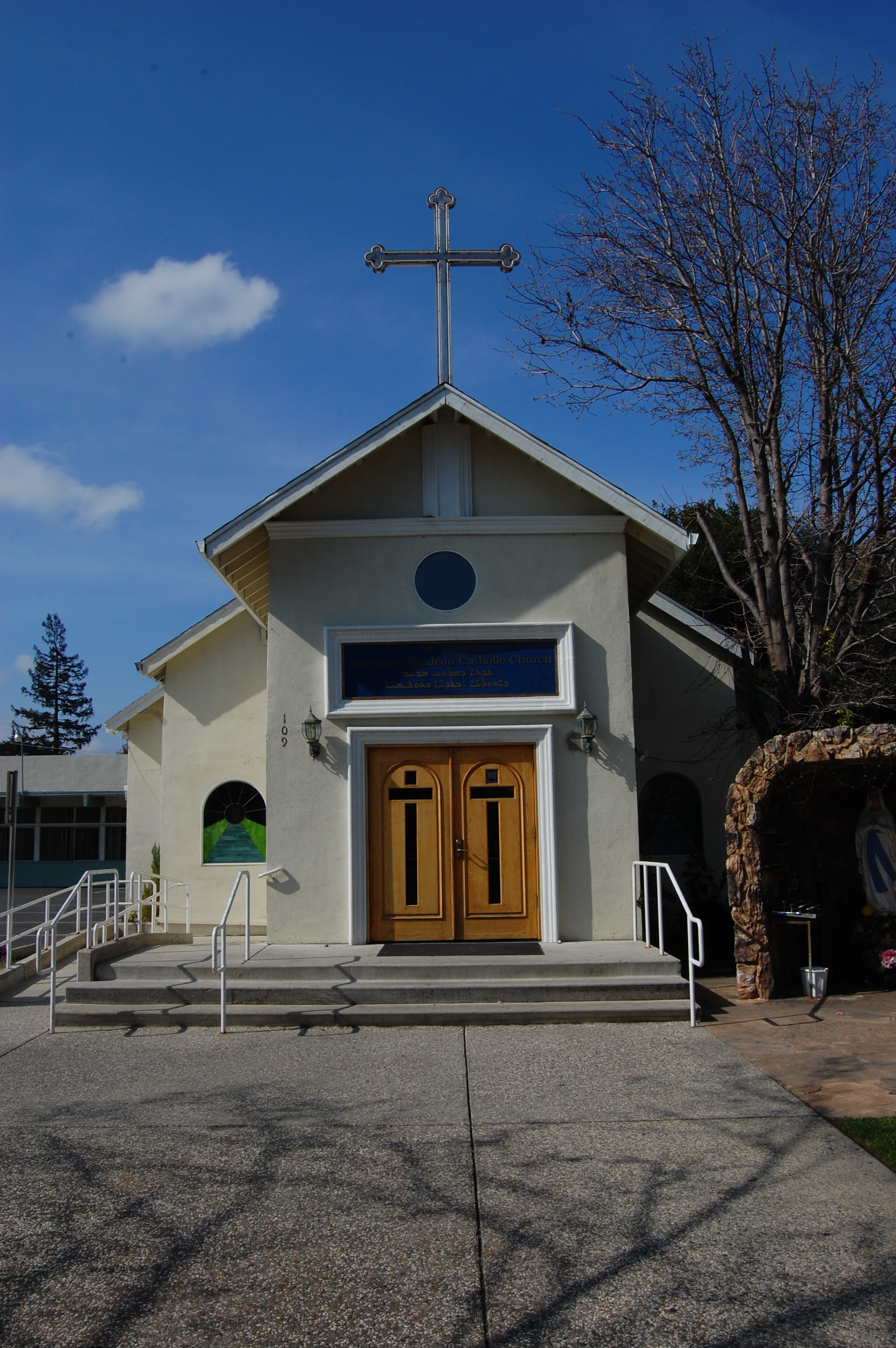 Saint Mary's Assyrian Chaldean Catholic Church. 109 North First Street, Campbell, California, USA.